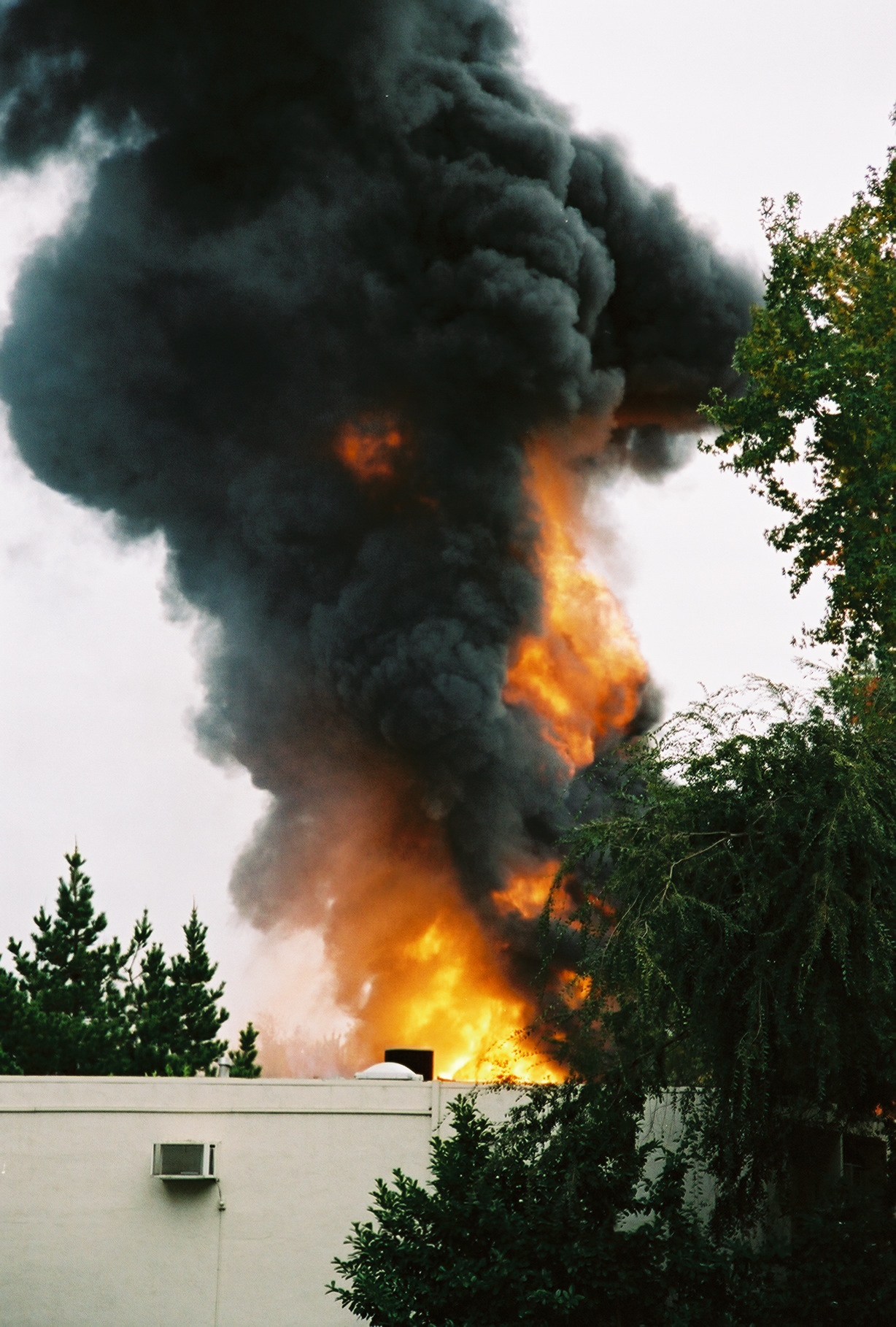 Walnut Creek Fire (Kinder Morgan Pipeline) Uploaded by User:Leonard G.